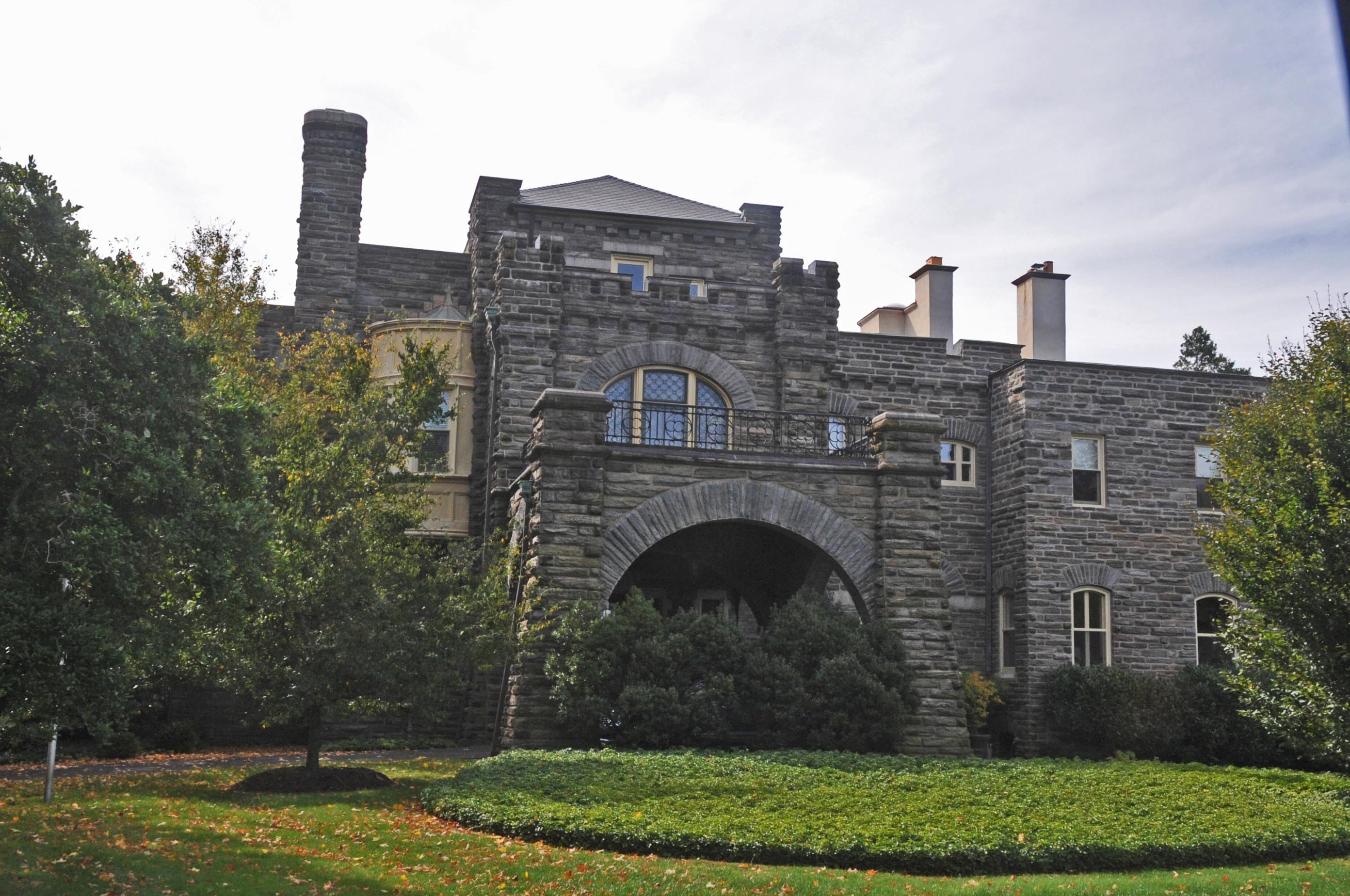 Built in 1885-1886 for Henry Howard Houston, who was the freight manager of the Pennsylvania Railroad as well as into gold mining, shipping, and petroleum products.